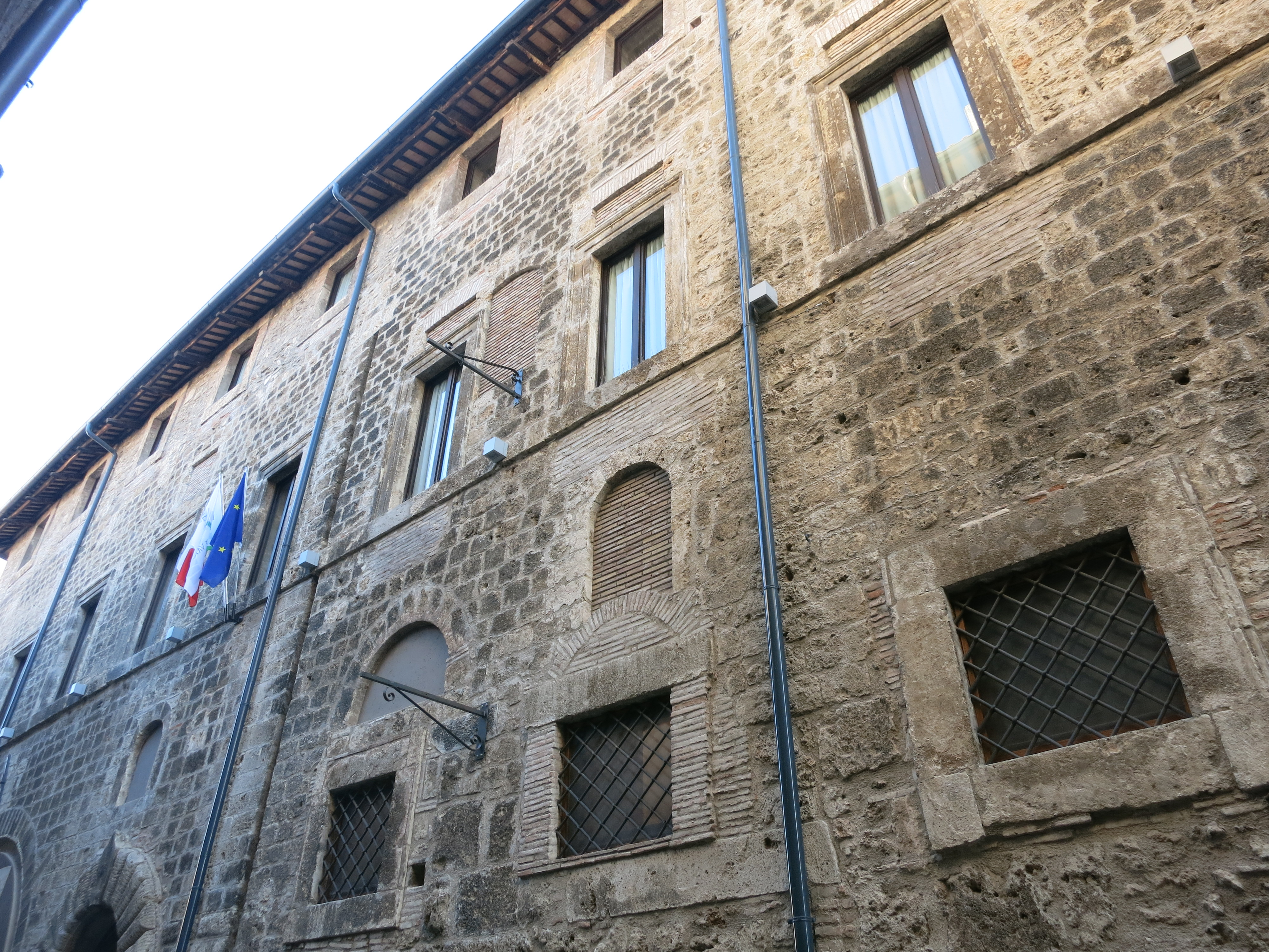 Potenziani Fabri Palace - Rieti, Lazio, Italy